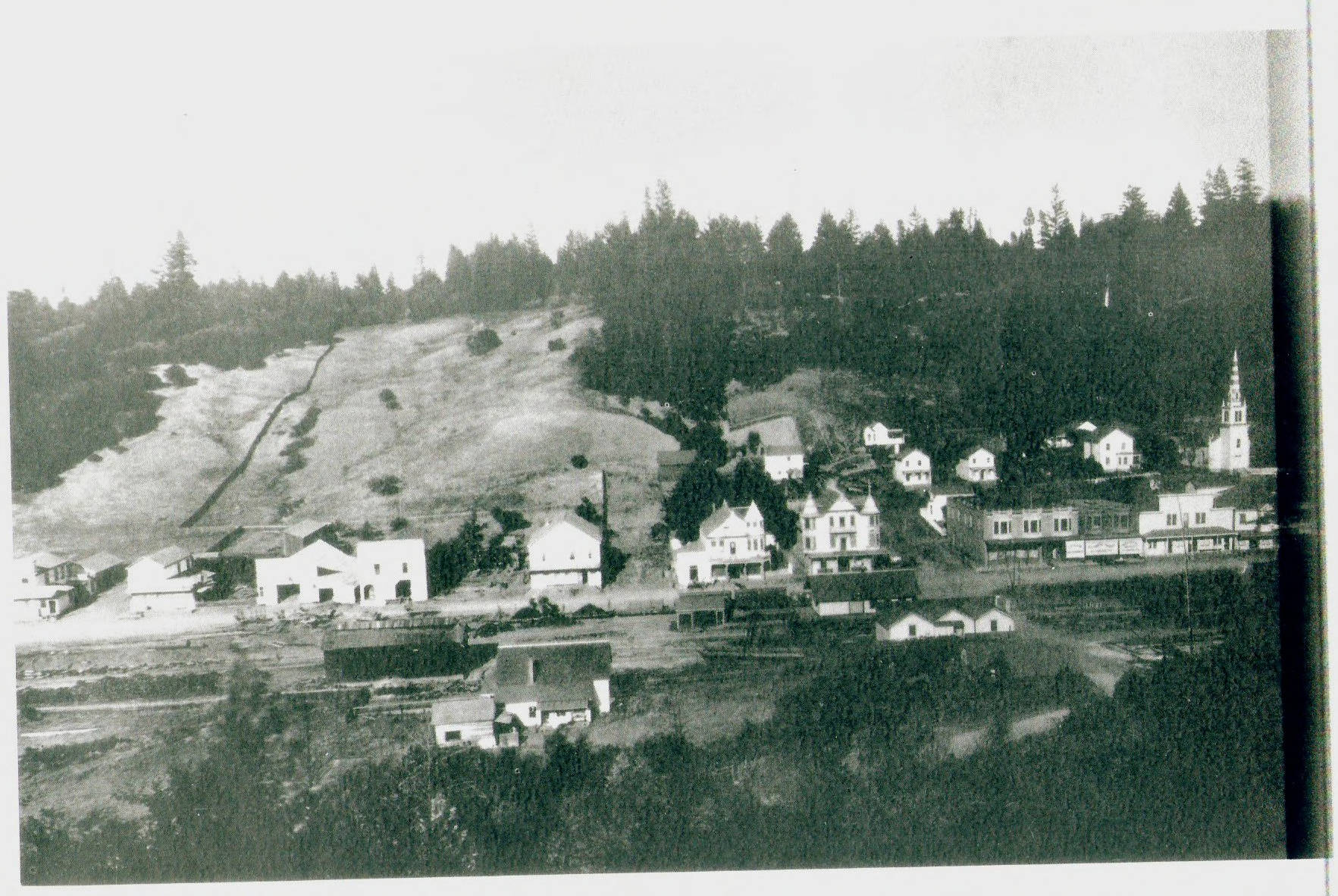 Looking east on Occidental, California.